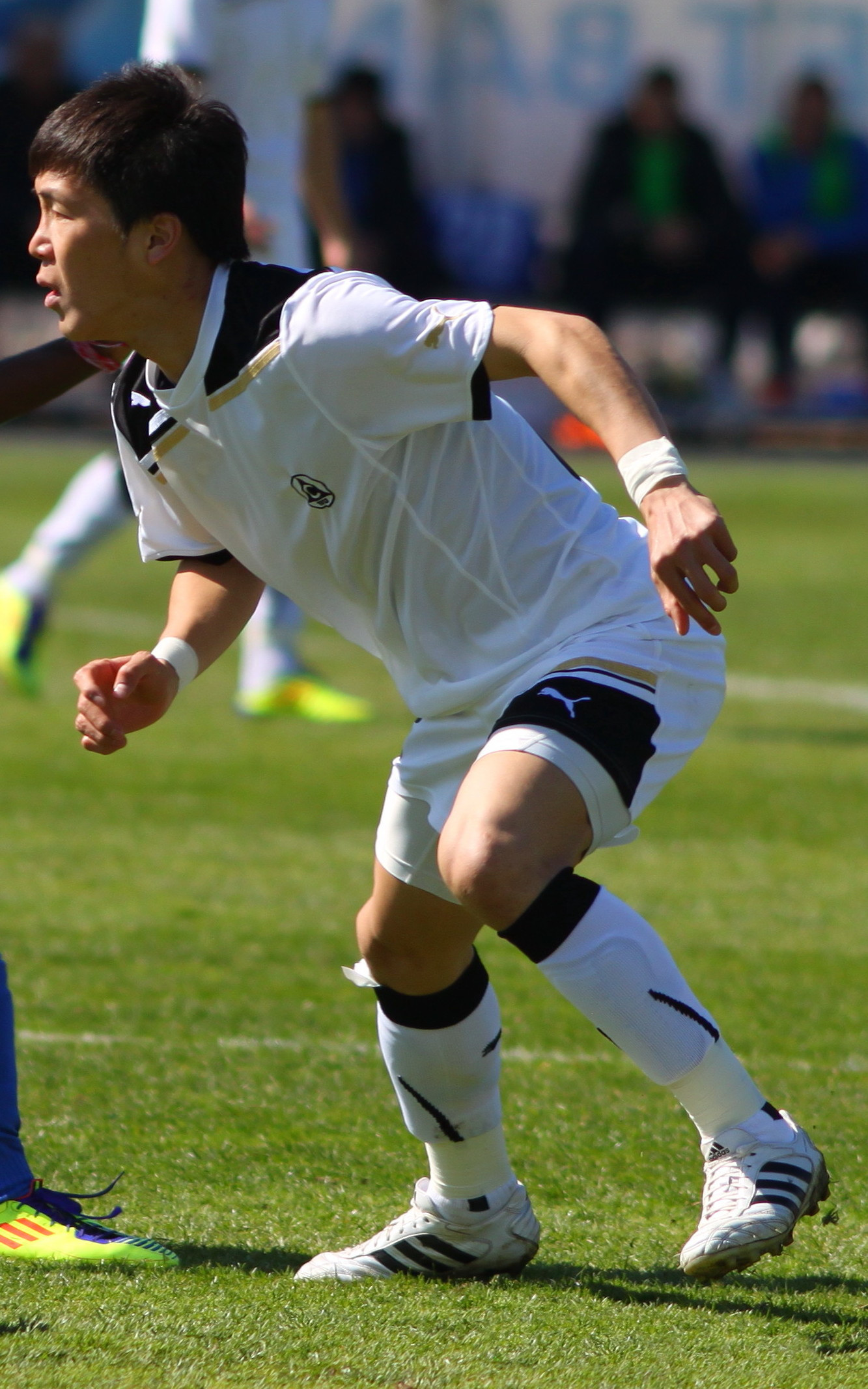 Taisuke Akiyoshi (秋吉 泰佑?) (born 18 April 1989 in Kumamoto) is a Japanese footballer who currently plays as a midfielder for Bulgarian A PFG club Slavia Sofia.